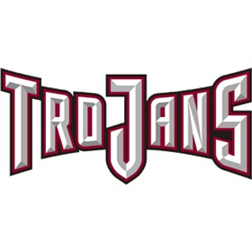 Troy Trojan Logo